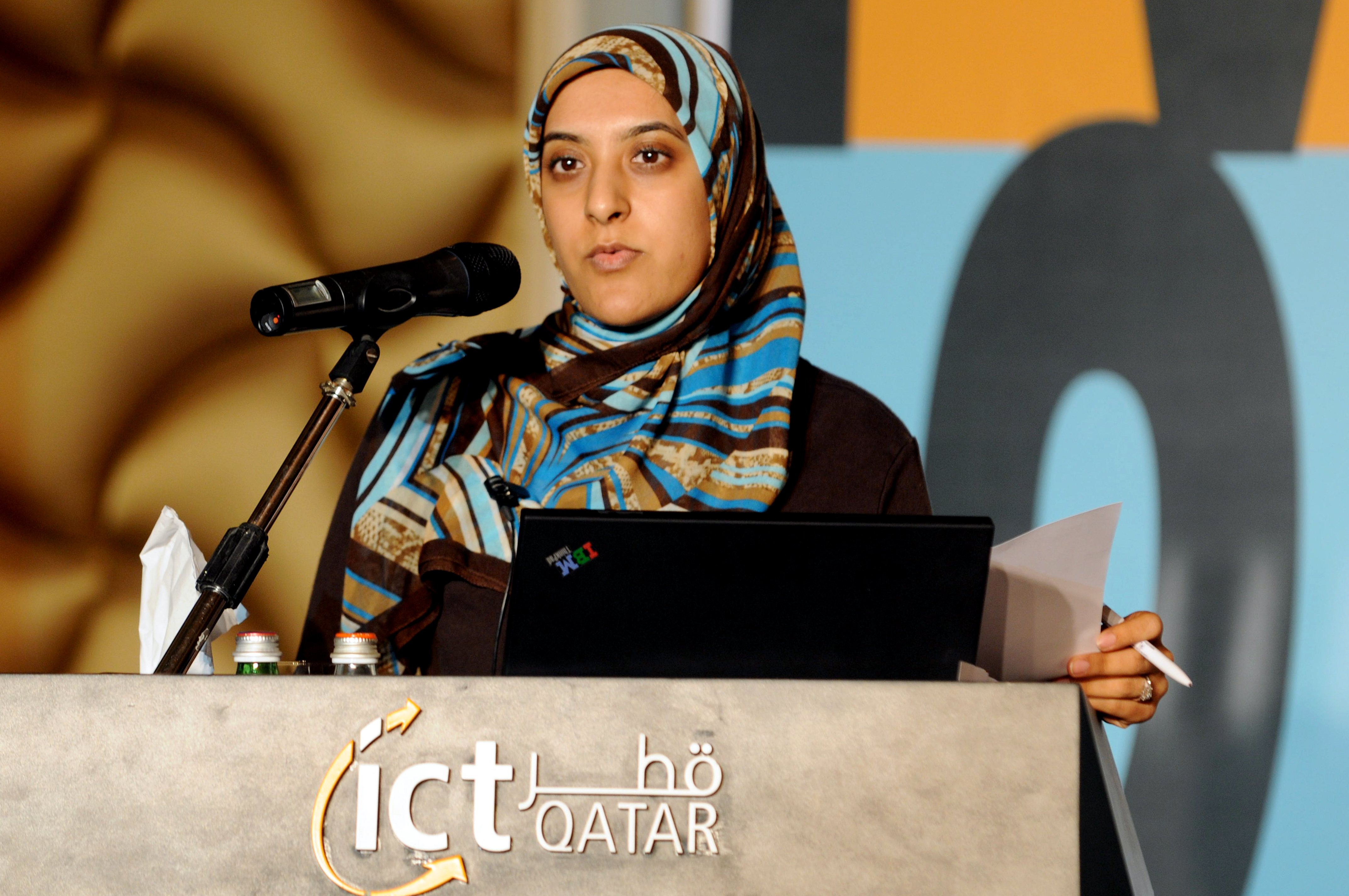 In an engaging presentation, Khatri reflected on her experience with blogging.